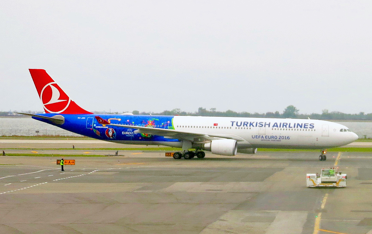 A Turkish Airlines Airbus A330-300 is turning into Terminal 1 at JFK Airport. The tug that will tow the aircraft into the gate is at the bottom right. This aircraft wears a special livery for UEFA 2016.